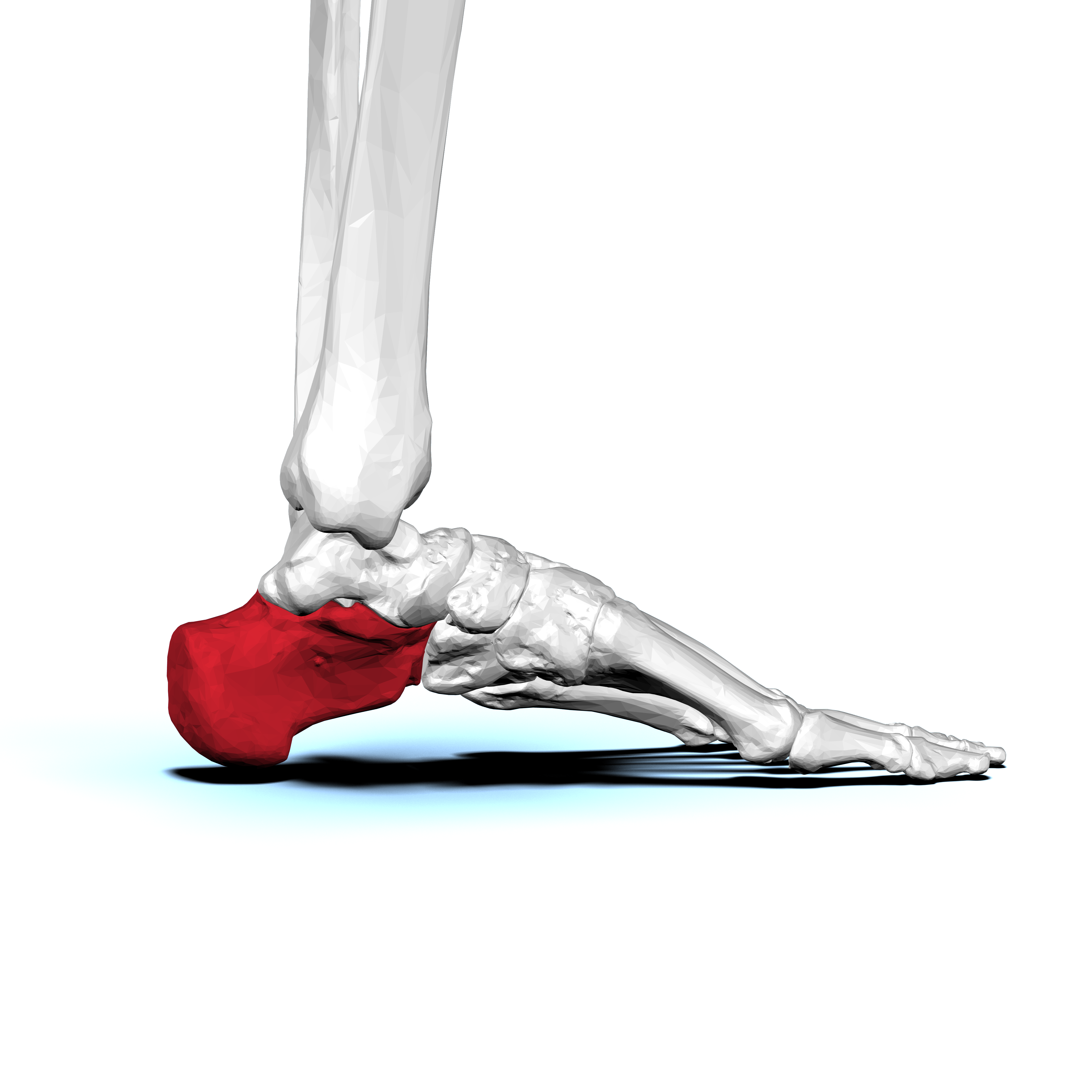 Calcaneus (shown in red)